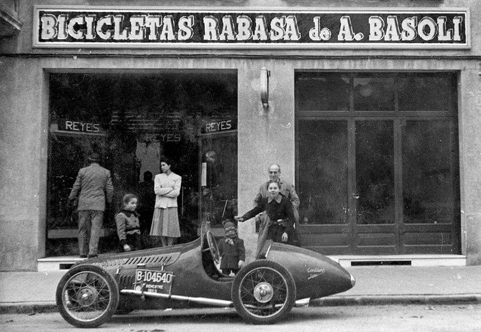 The Centauro Derbi 250 in front of Andreu Basolí's shop in Granollers, circa 1955